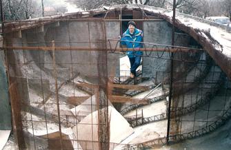 Ferrocement build boat